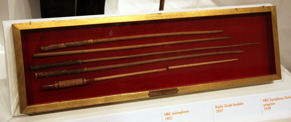 Batons used by conductor Arturo Toscanini in the 1950s, on display at the Smithsonian Museum of American History in Washington, D.C. Tocanini was an Italian who took up conducting at a very early age. He became famous for the intensity of his conducting, his perfectionism, and his photographic memory. An early supporter of Fascist Benito Mussolini in Italy, he became disillusioned with Fascism immediately and in 1937 fled to the United States after roundly denouncing Mussolini. He led the NBC Symphony Orchestra, which was created for him, from 1937 to 1957, which was heard practically every day by millions of Americans via radio. He also made numerous television appearances, and led the NBC Orchestra and the Philadelphia Orchestra in making hundreds of recordings of classical music. He died at the age of 89 in 1957.